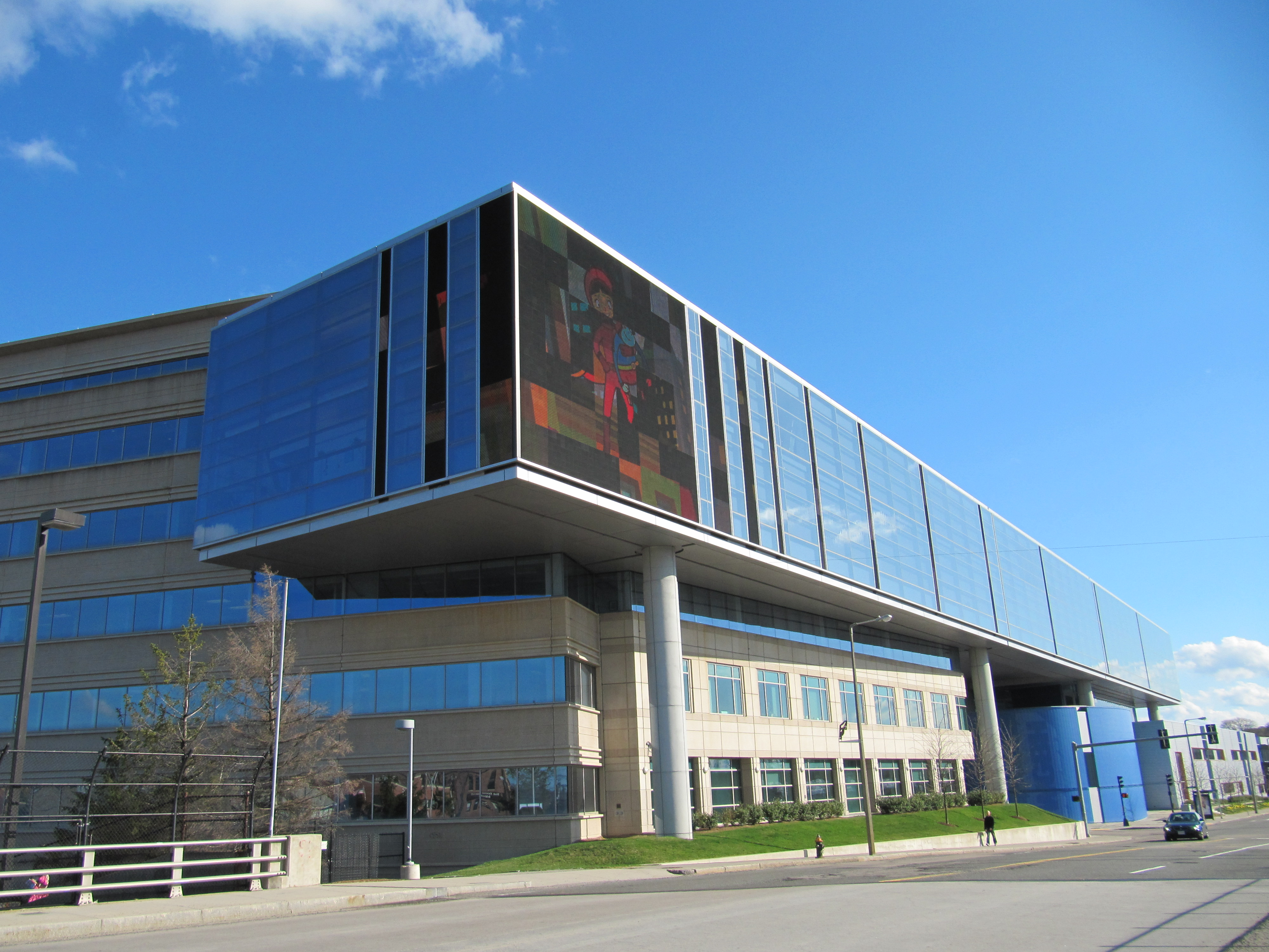 WGBH studio complex, 1 Guest Street, Brighton/Boston - seen from Market Street Bridge